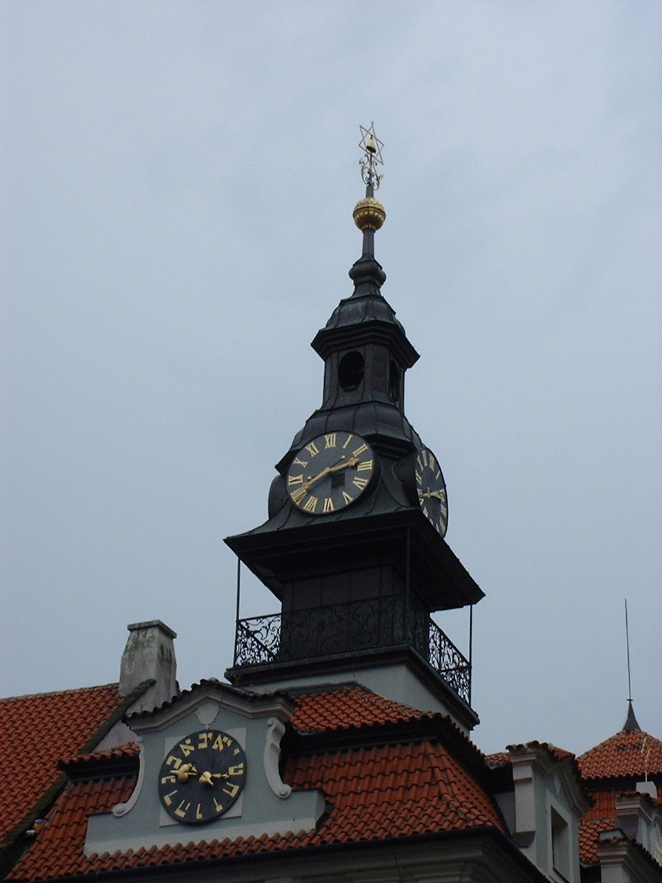 Clock tower on Jewish Town Hall, Prague. I took this picture on August 1, 2002. --agr 12:21, 22 August 2005 (UTC)